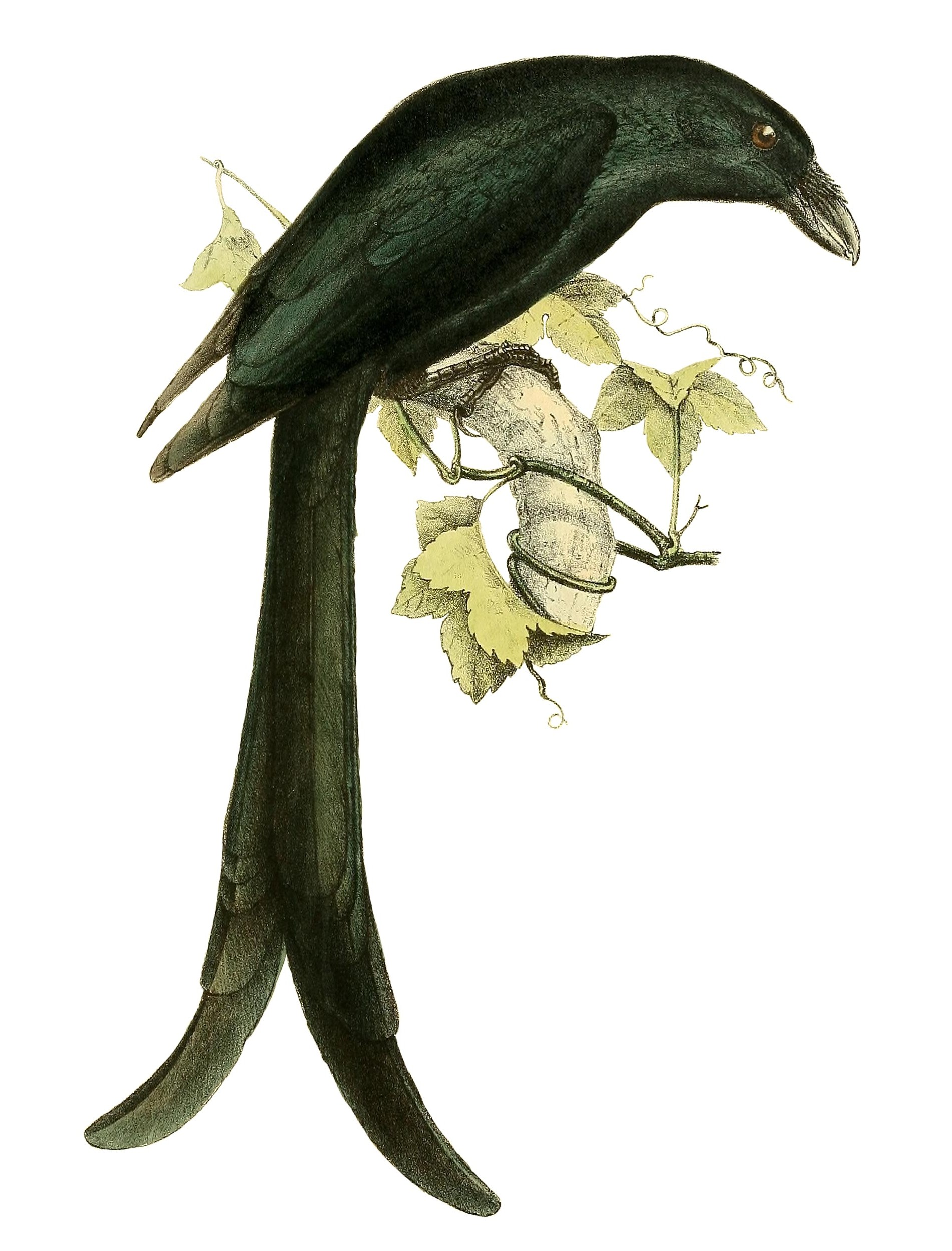 Dicrurus waldeni = Dicrurus waldenii (Mayotte Drongo), adult male